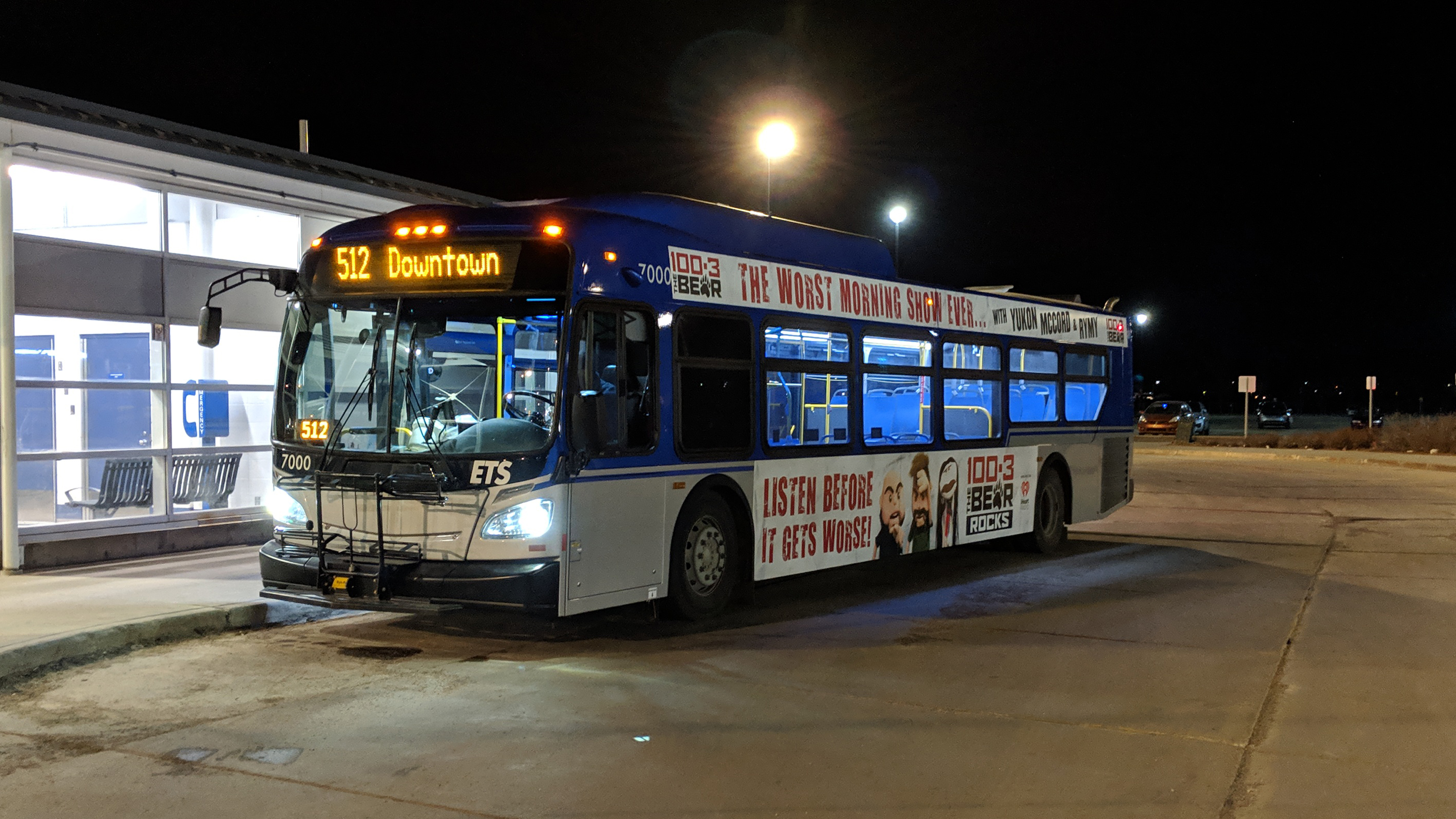 ETS bus 7000 (a New Flyer XD40) on route 512 with destination "Downtown", at the West Clareview Transit Centre. Photographed at approximately 1:30am. Route 512 only operates at night, to replace the northern sections of the Capital LRT line after train service stops for the night. Cropped from the original. Advertising on the bus is for the local radio station "The Bear" on 100.3FM.